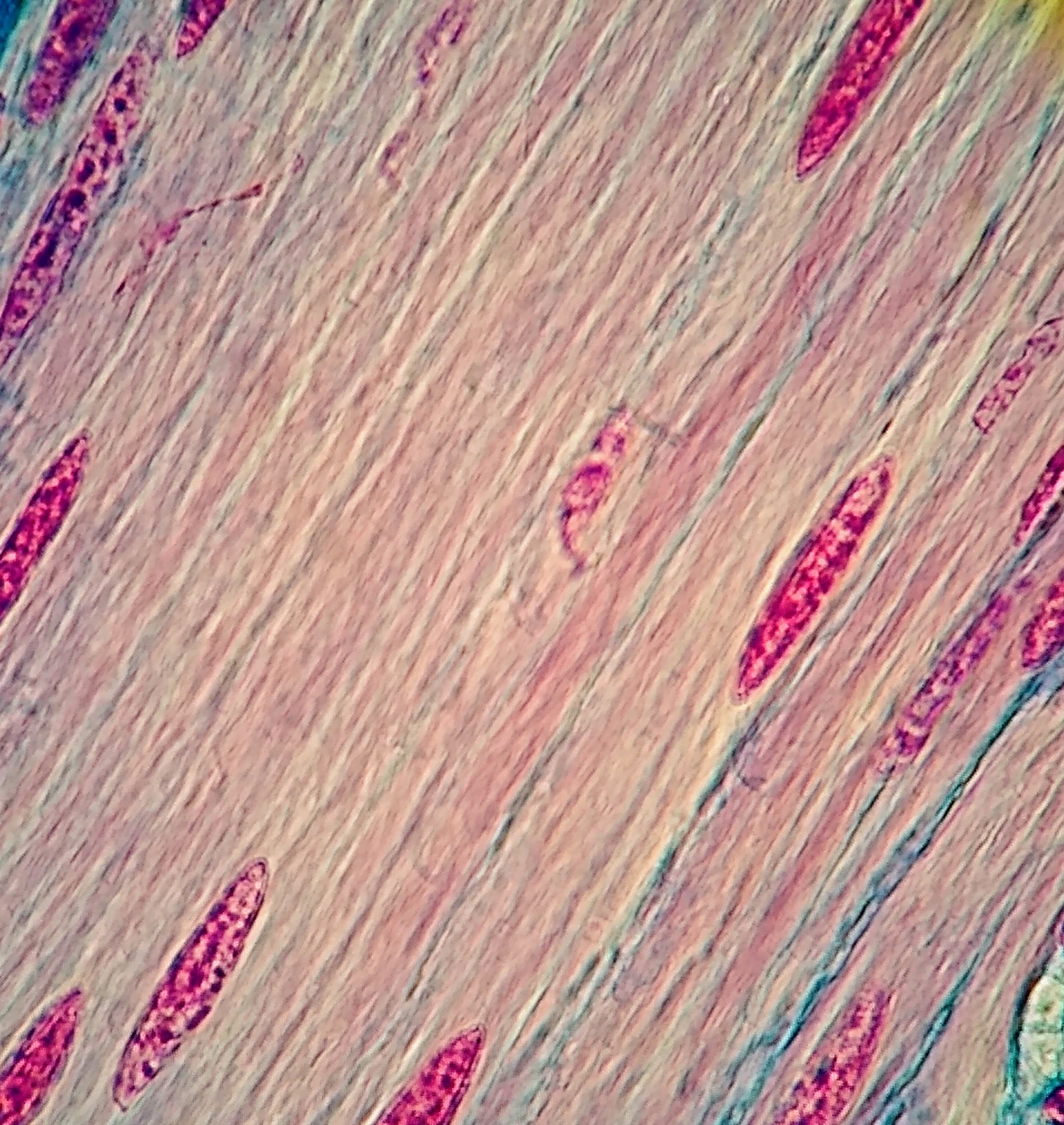 Histology section of smooth muscle seen in light microscope at 400x magnification